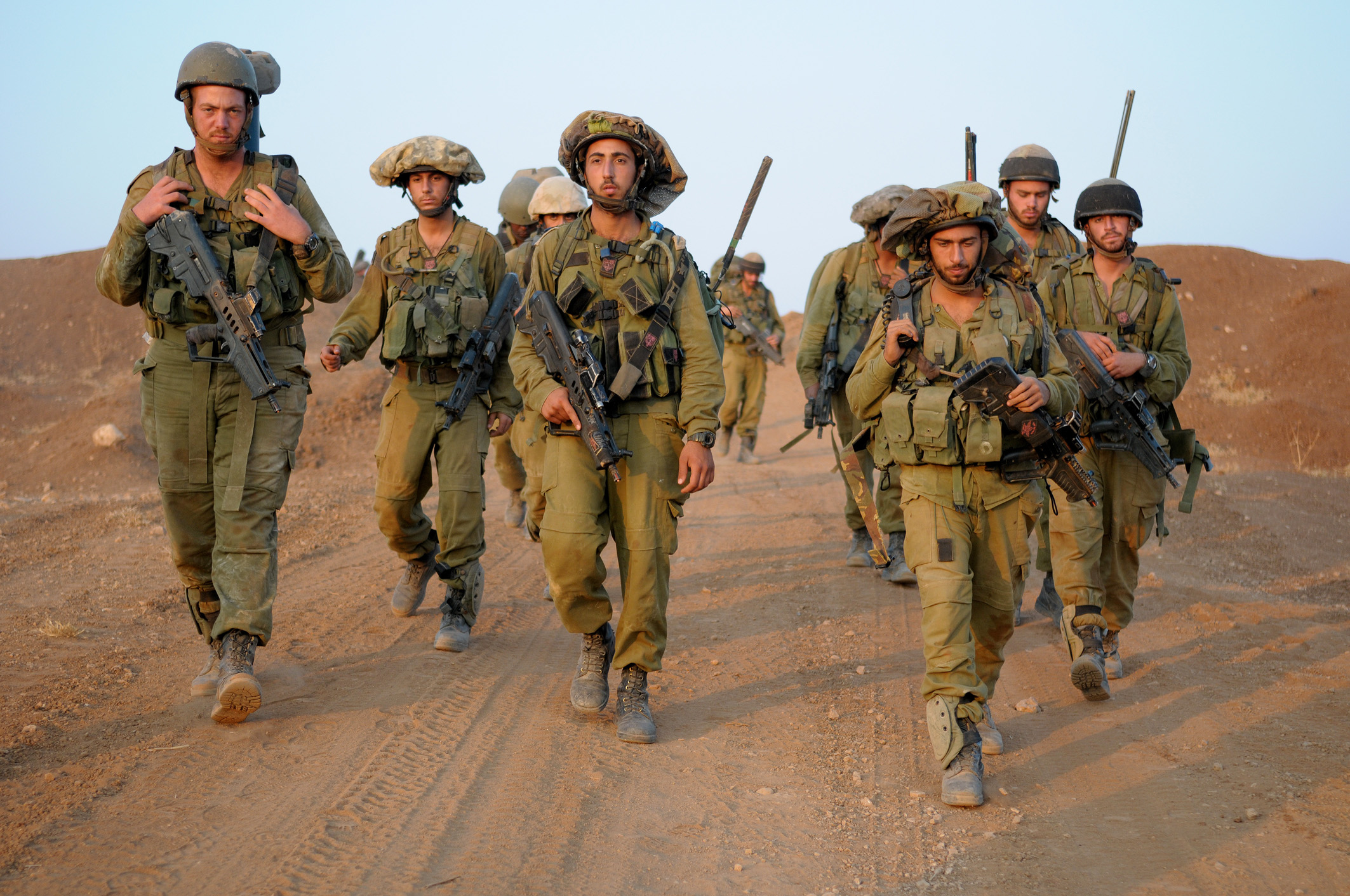 Soldiers in the Givati Brigade participate in a drill in southern Israel. Photo by Cpl. Shai Wagner, IDF Spokesperson's Unit The Israel Defense Forces Facebook • blog • Twitter